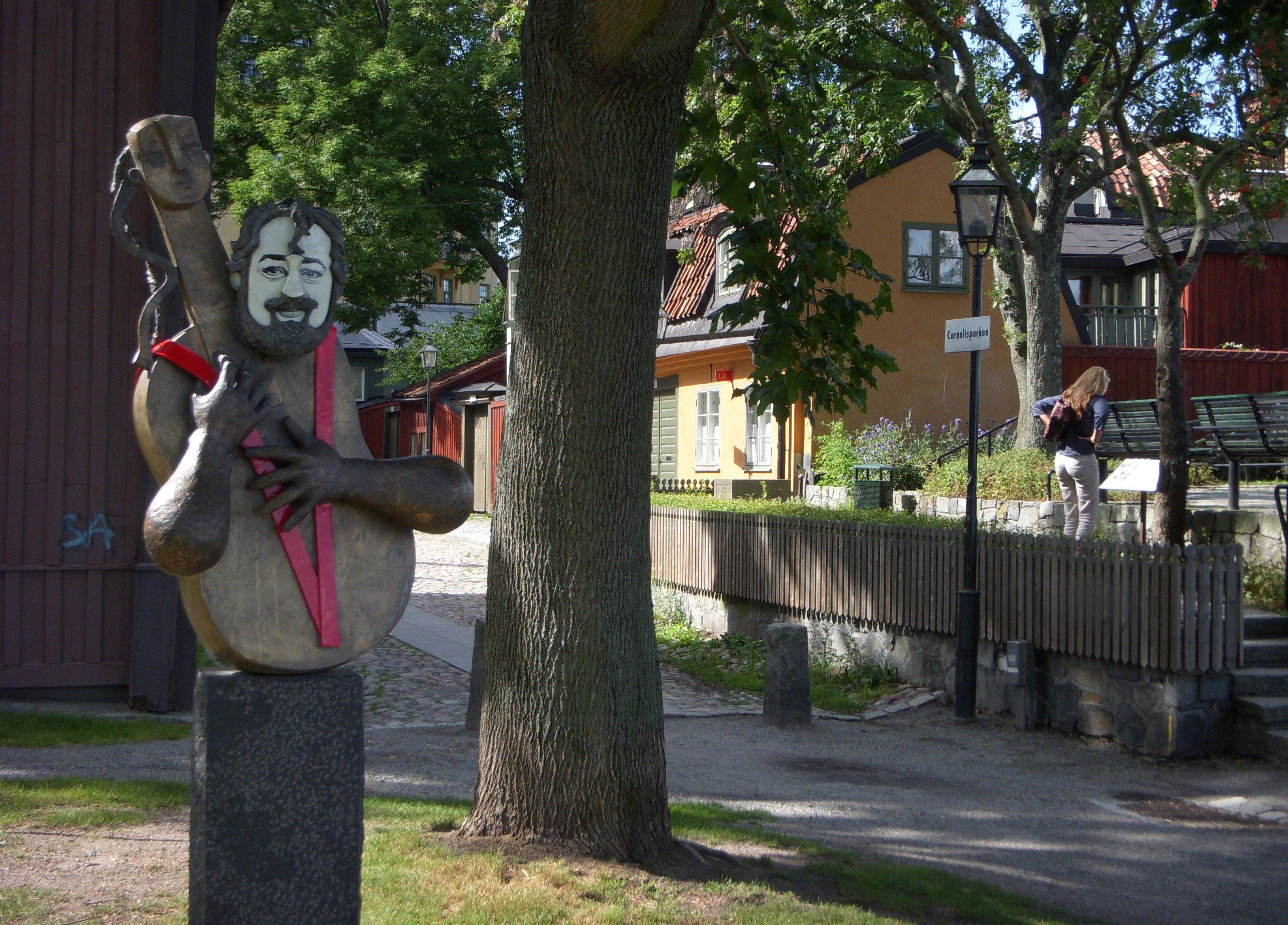 A statue of Cornelis Vreeswijk by Bitte Jonason Åkerlund in Södermalm, Stockholm